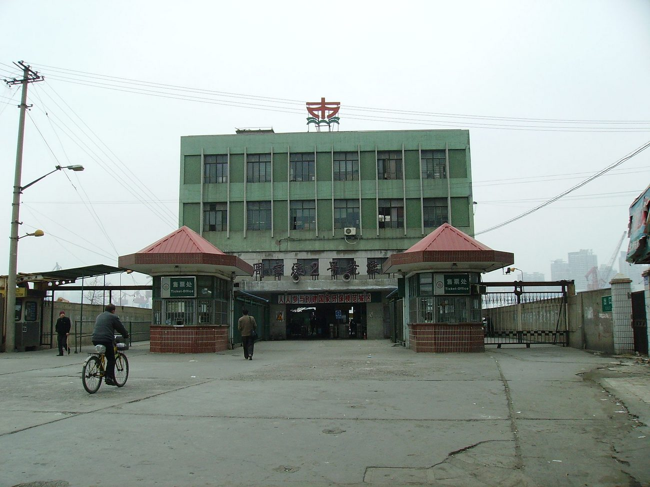 Zhoujiadu No.2 Ferry